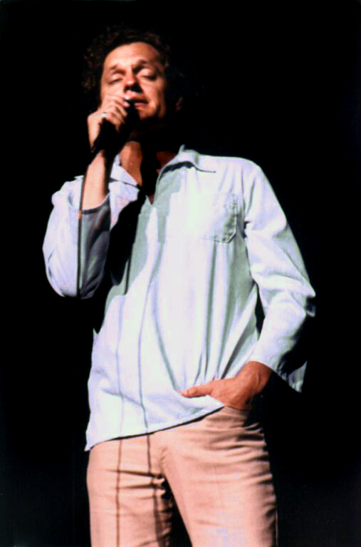 Harry 7 (Harry Chapin viewed alone singing in concert in the 1970s)